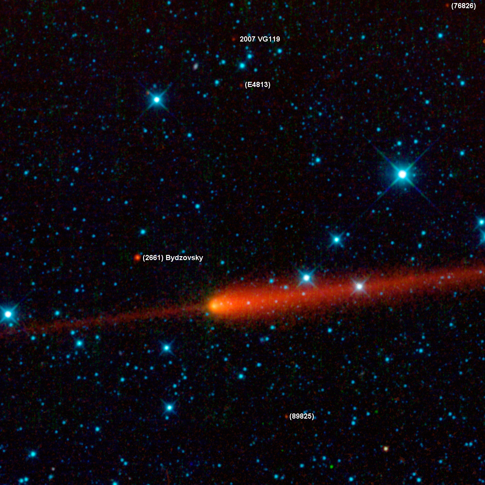 Comet 65/Gunn and some asteroids in infrared. Photo taken by WISE telescope.